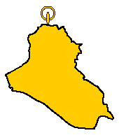 A representation of an Iraqi map pendant, a symbol of Iraqi unity in the face of widespread sectarian violence. Image adapted from Image:BlankMap-World-large2.png and Image:Barnstar of National Merit.png GFDL due to derivation from Image:BlankMap-World-large2.png, created by User:Astrokey44